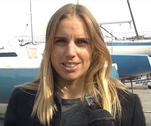 International Laser Class sailor from the Netherlands